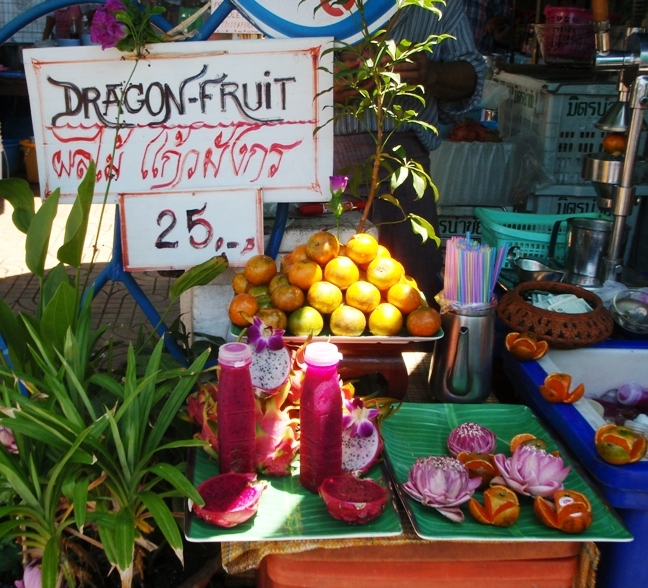 Dragon fruit juice